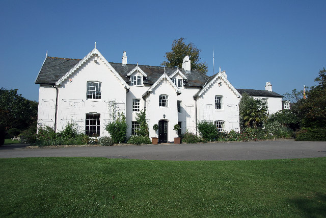 Jermyns House. Located in the Sir Harold Hillier Gardens (formerly known as the Hillier Arboretum).